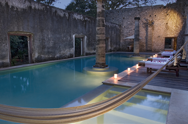 Pool of the Hacienda Uayamon